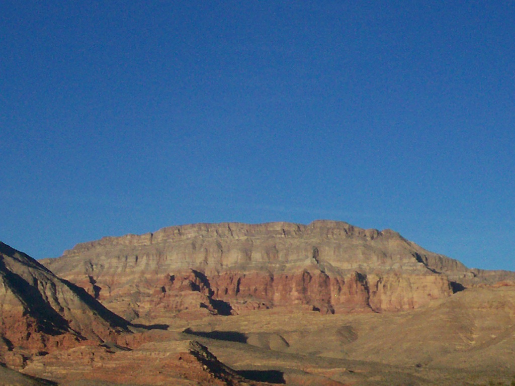 Red rock cliff walls in the Virgin River Gorge by David Jolley.